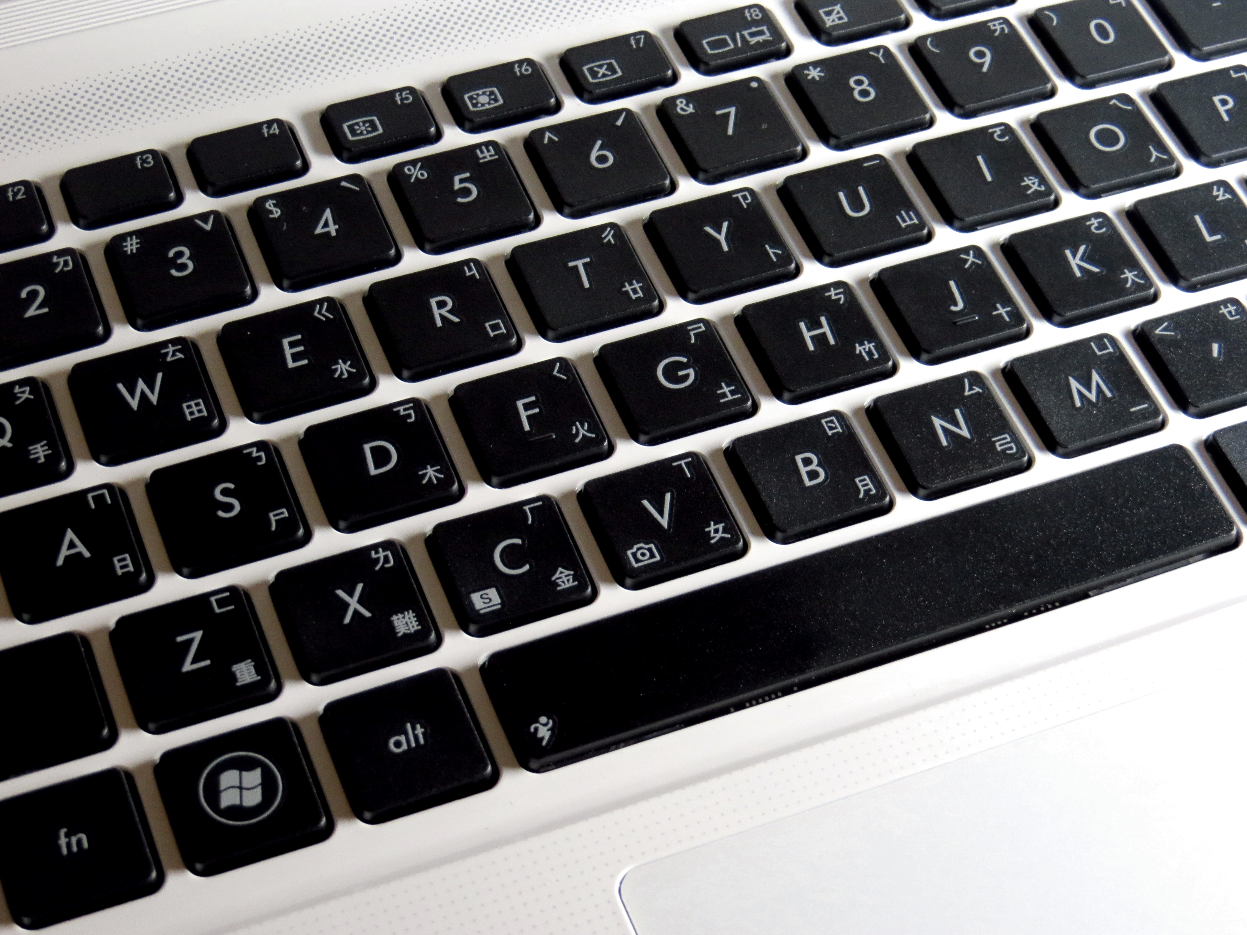 Chiclet Keyboard (island-style keyboard) on a Asus K55 notebook computer.